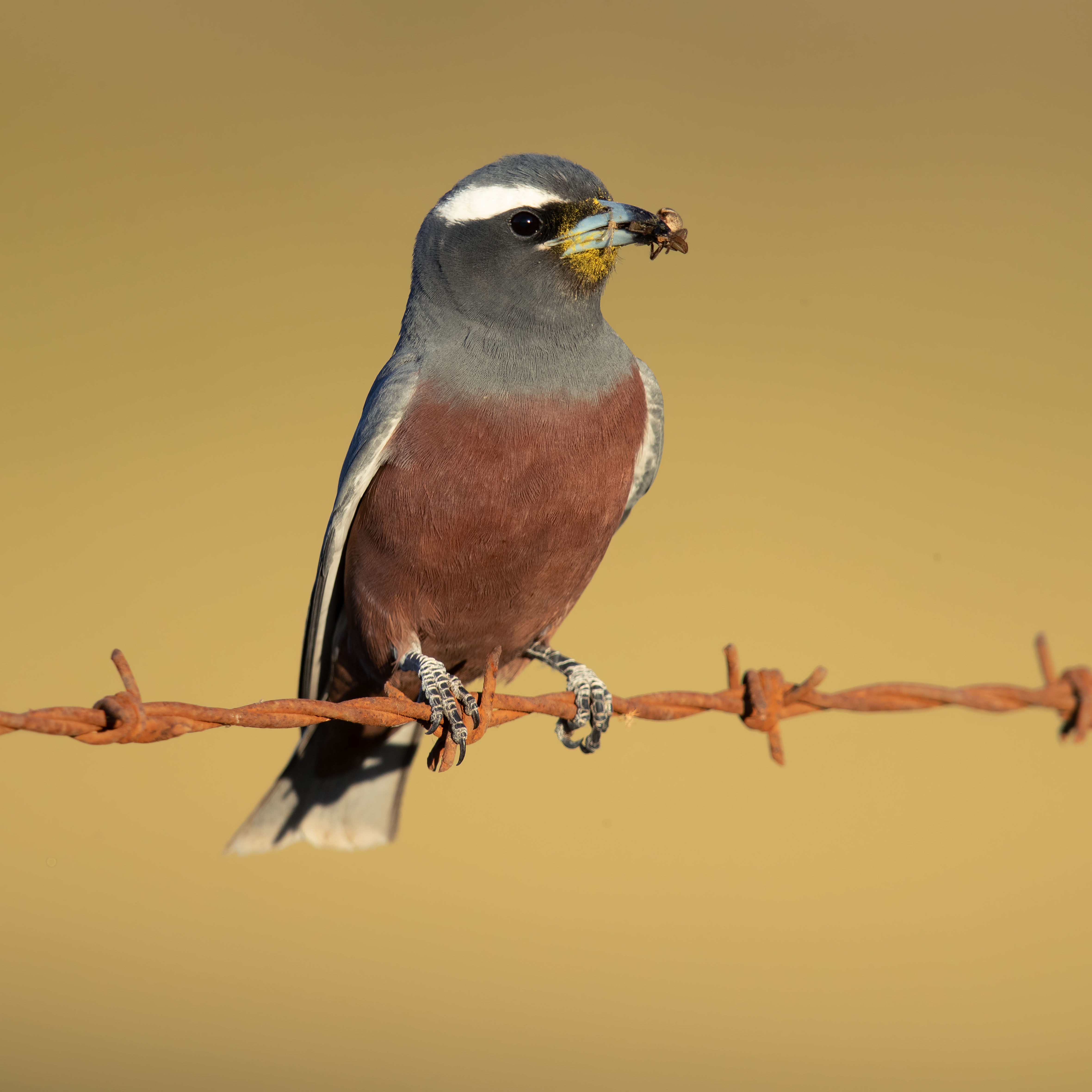 White-browed Woodswallow (Artamus superciliosus) male, Bushells Lagoon, Hawkesbury, New South Wales, Australia